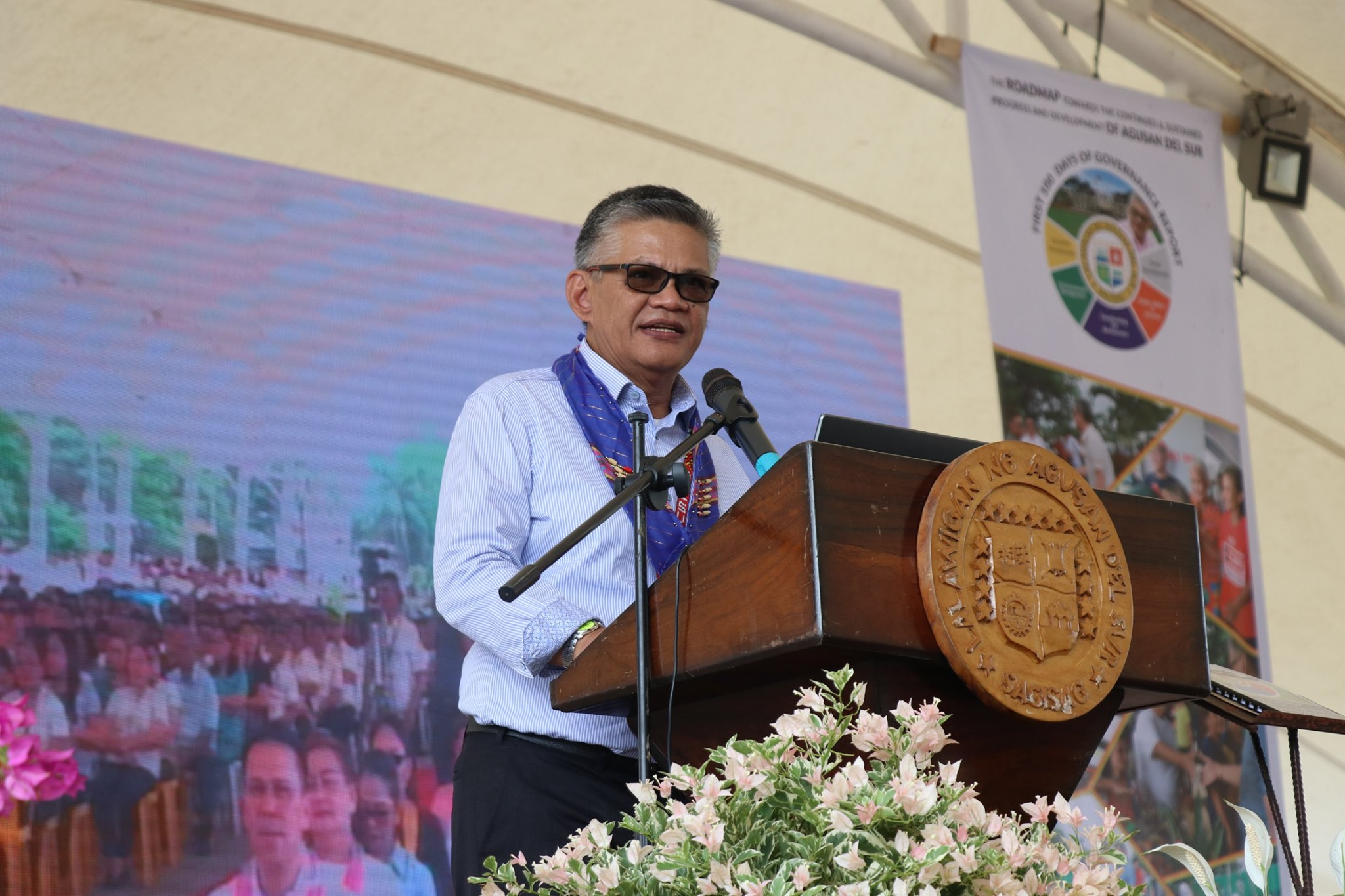 Gov. Santiago Cane, Jr. at Datu Lipus Makapandong Cultural Center for his 100 days in governance. Owned by Provincial Public Information Office of Agusan del Sur, and it is public domain.